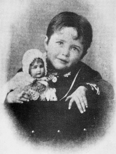 Young Anna Louise Bryant nee Moran.